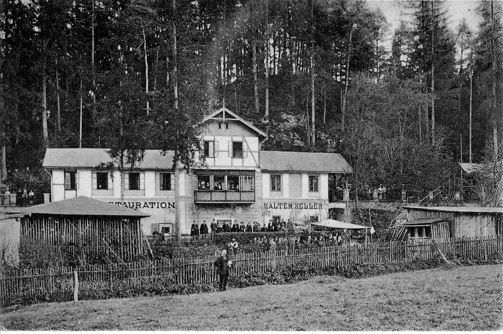 Historical photograph of the restaurant "Kalter Keller" (knocked down completely in the middle of the 20th century) on the Kellerstrasse - Kreuzbergl, situated in the 8th district "Villacher Vorstadt" of the capital Klagenfurt, Carinthia, Austria